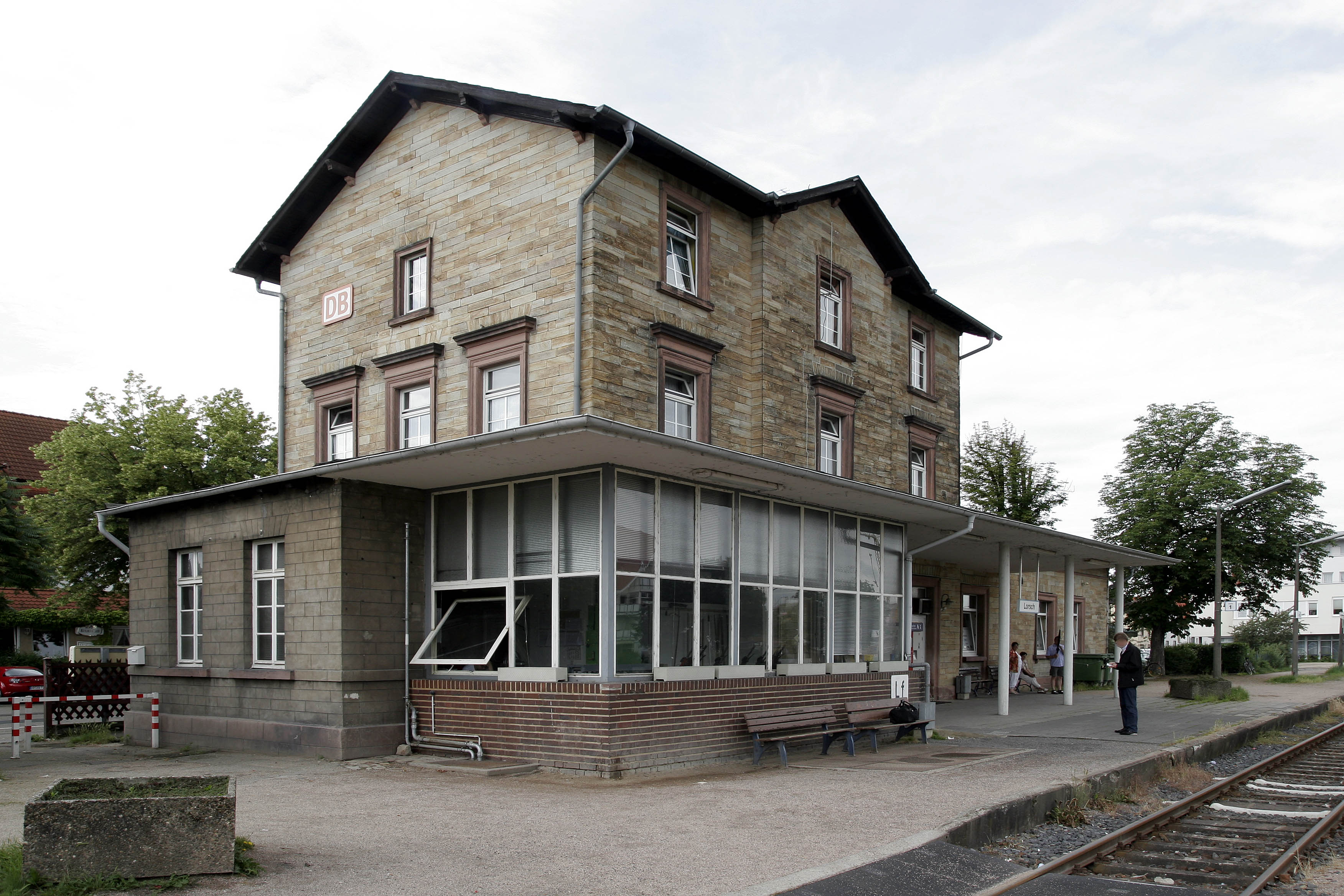 Lorsch (Germany), railway-station.